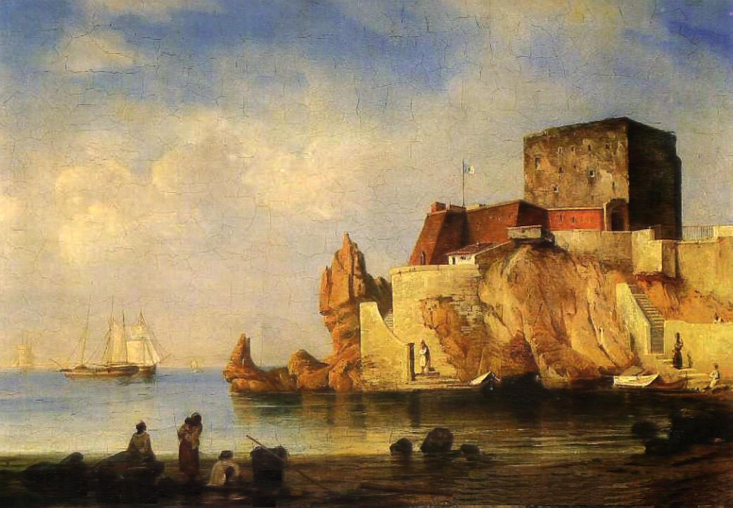 Forte de São José da Pontinha